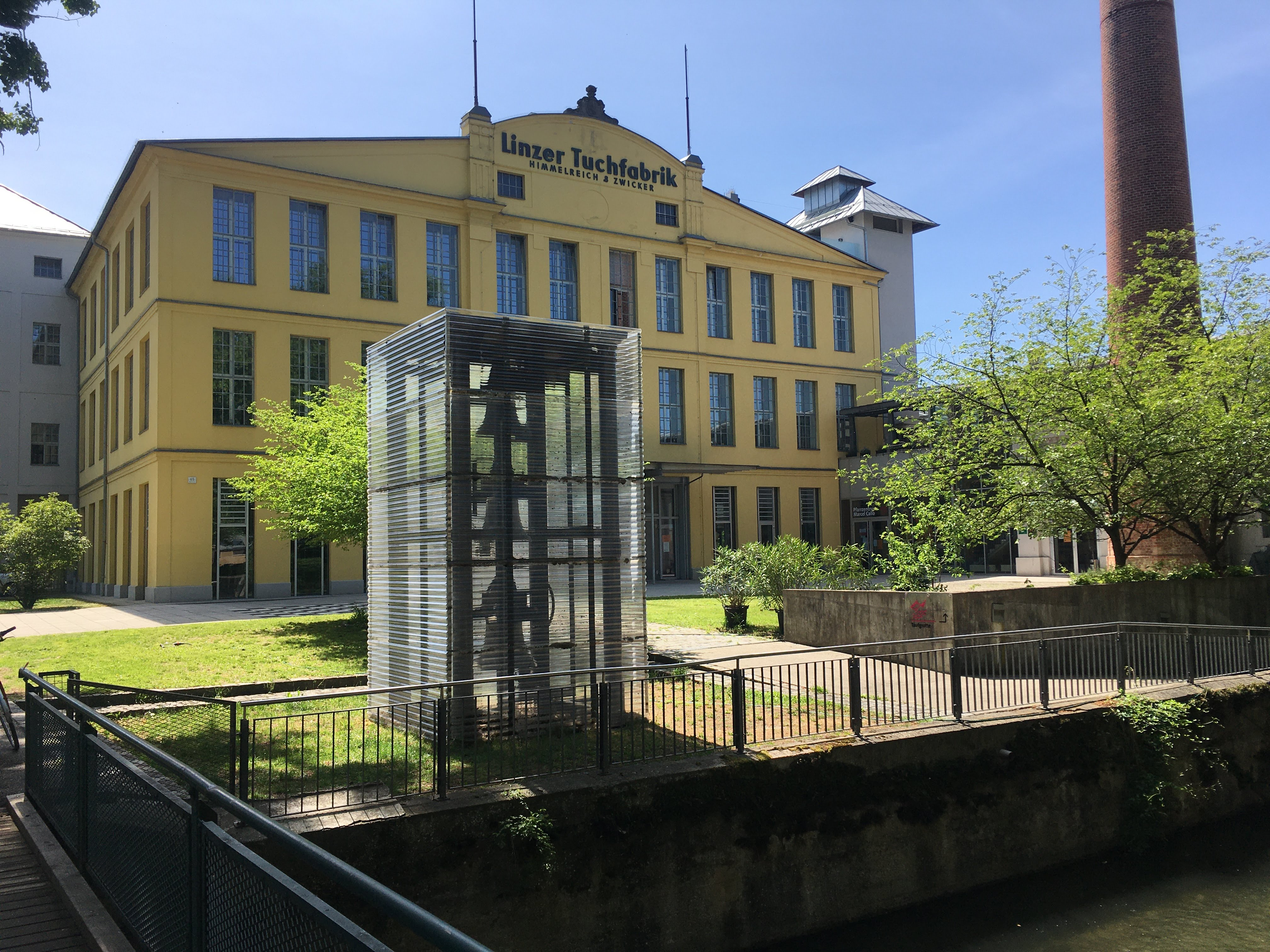 Linzer Tuchfabrik